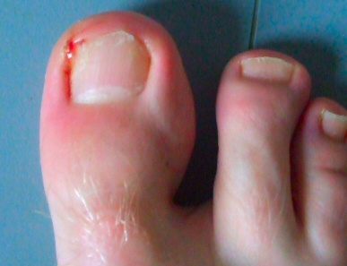 Paronychia of the big toe